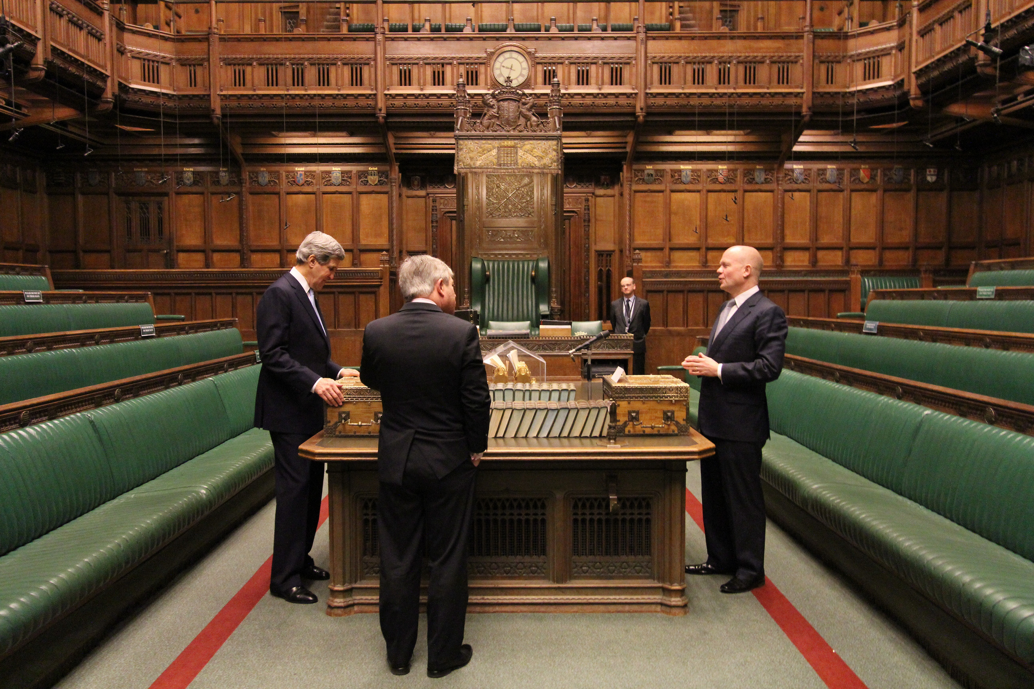 Secretary of State John Kerry, House of Commons Speaker John Bercow, and UK Foreign Secretary William Hague in the House of Commons chamber, in London, on February 25, 2013. [State Department photo/ Public Domain]